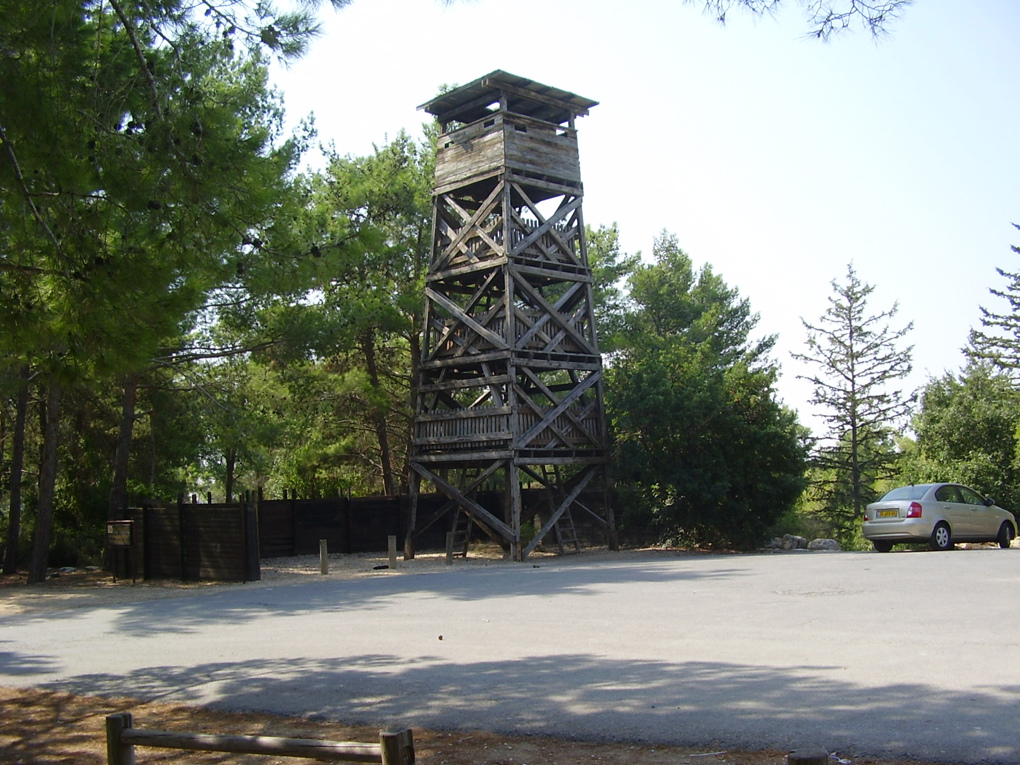 watch tower in lower hanita